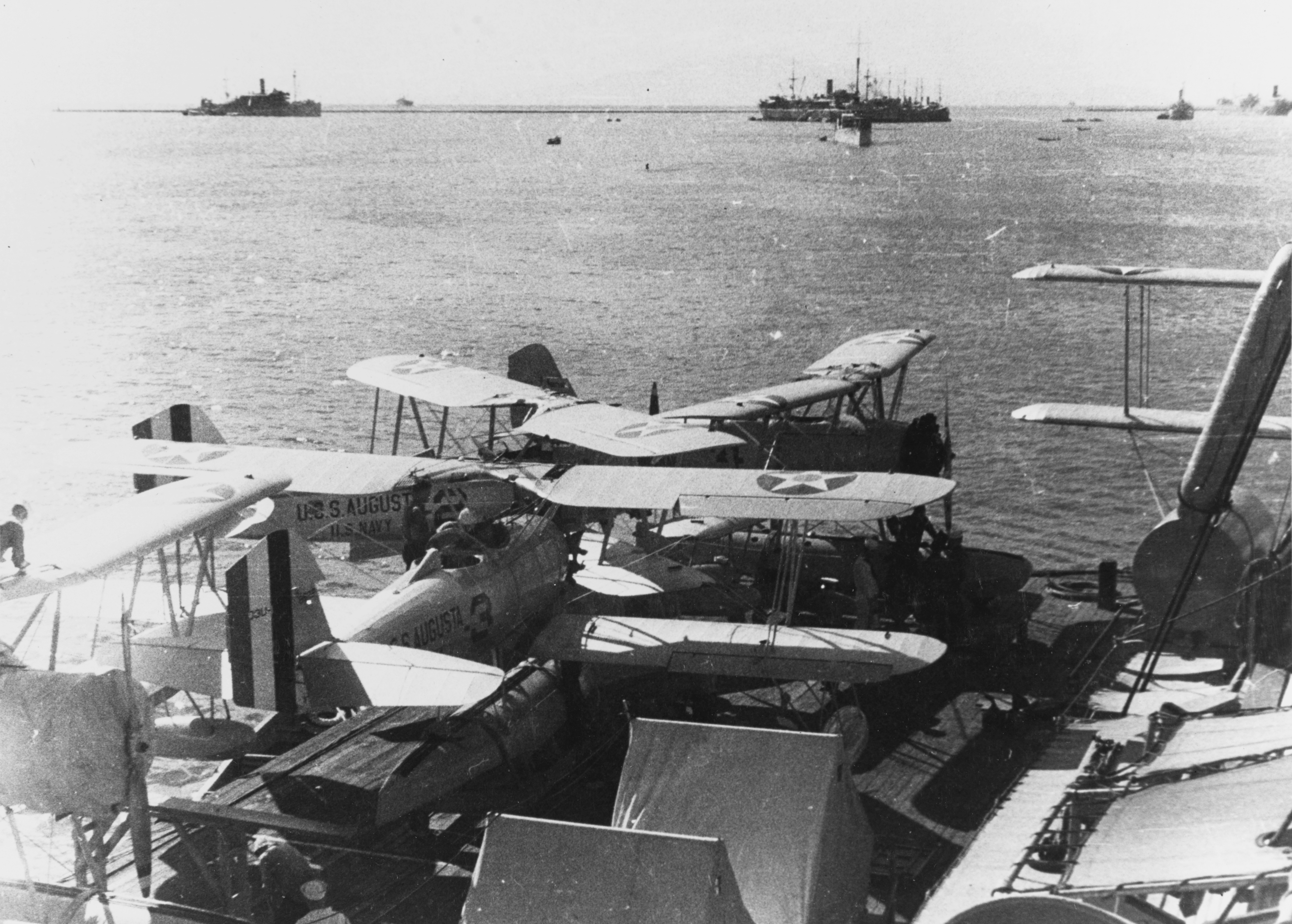 U.S. Navy Vought O3U-1 Corsair observation planes from the heavy cruiser USS Augusta (CA-31) aviation unit, on a barge alongside the minesweeper USS Heron (AM-10) at Subic Bay, Philippines, circa 1933-1934. Partially visible at the extreme right is a Martin T4M-1 torpedo plane being serviced on board Heron. The larger ships in the background are the submarine tender USS Canopus (AS-9), with submarines alongside (at left); and the destroyer tender USS Black Hawk (AD-9), with destroyers alongside (right center).